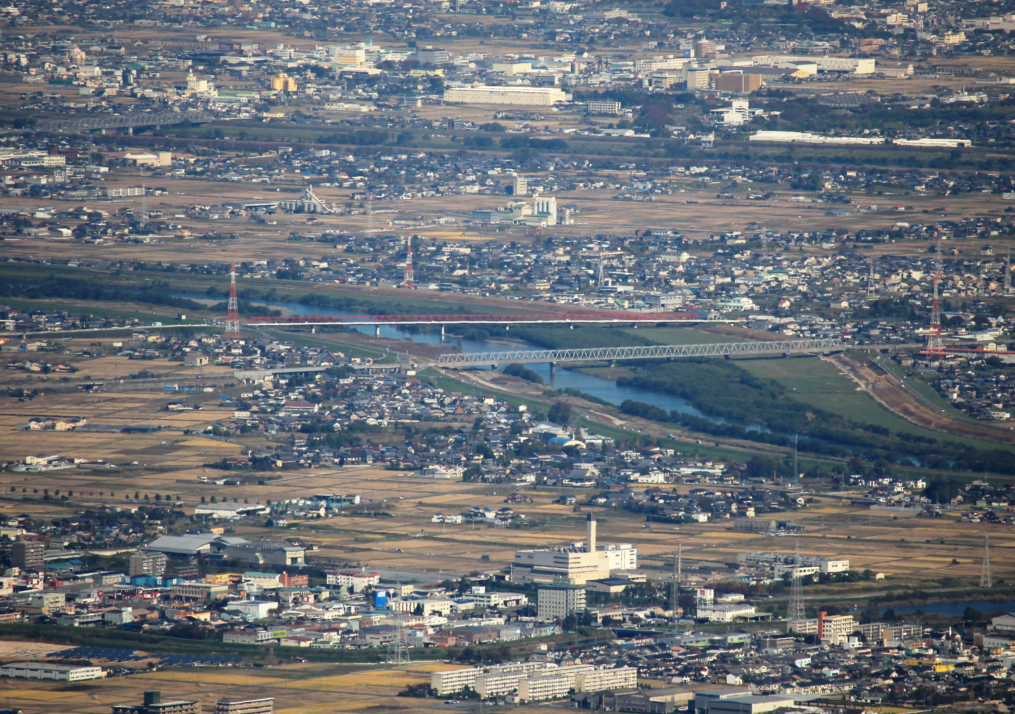 Ōgaki Bridge of Gifu prefectural road 18 and Ibigawa Bridge of Tōkaidō Shinkansen on Ibi River seen from Yōrō Mountains, in Hashima and Anpachi, Gifu prefecture, Japan.